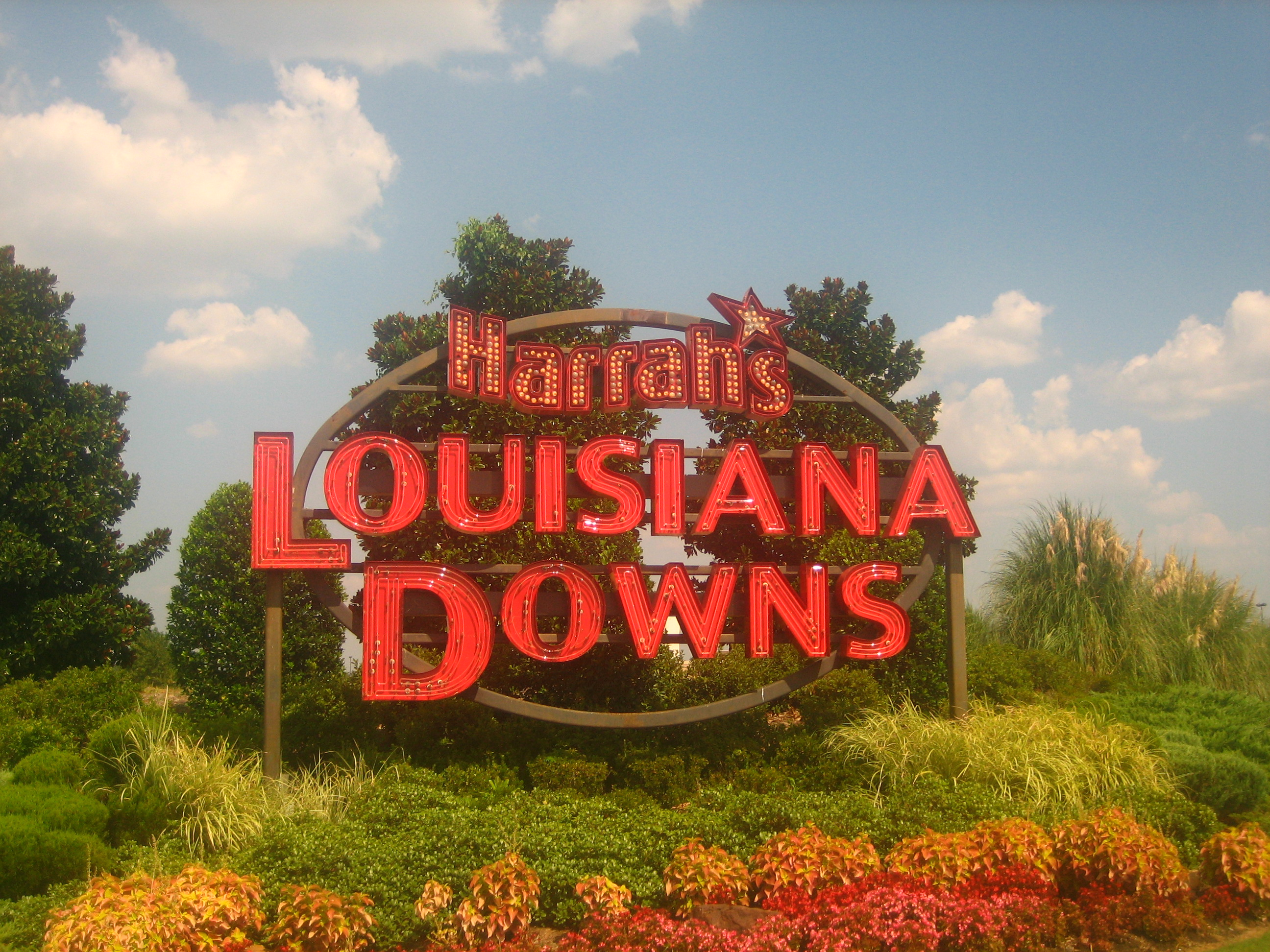 Louisiana Downs sign